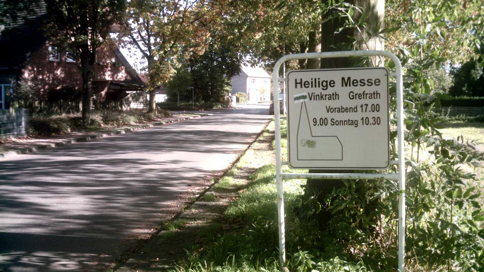 Street Mörtelsstraße with parish sign in Vinkrath. Vinkrath is a village of the municipality of Grefrath, North Rhine-Westphalia, Germany